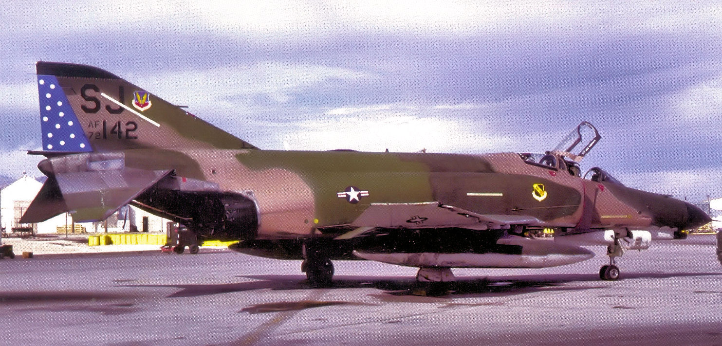 334th Tactical Fighter Squadron McDonnell Douglas F-4E-51-MC Phantom 72-0142 Seymour Johnson AFB, North Carolina, 1978. Retired to AMARC as FP0685 Jun 5, 1991.